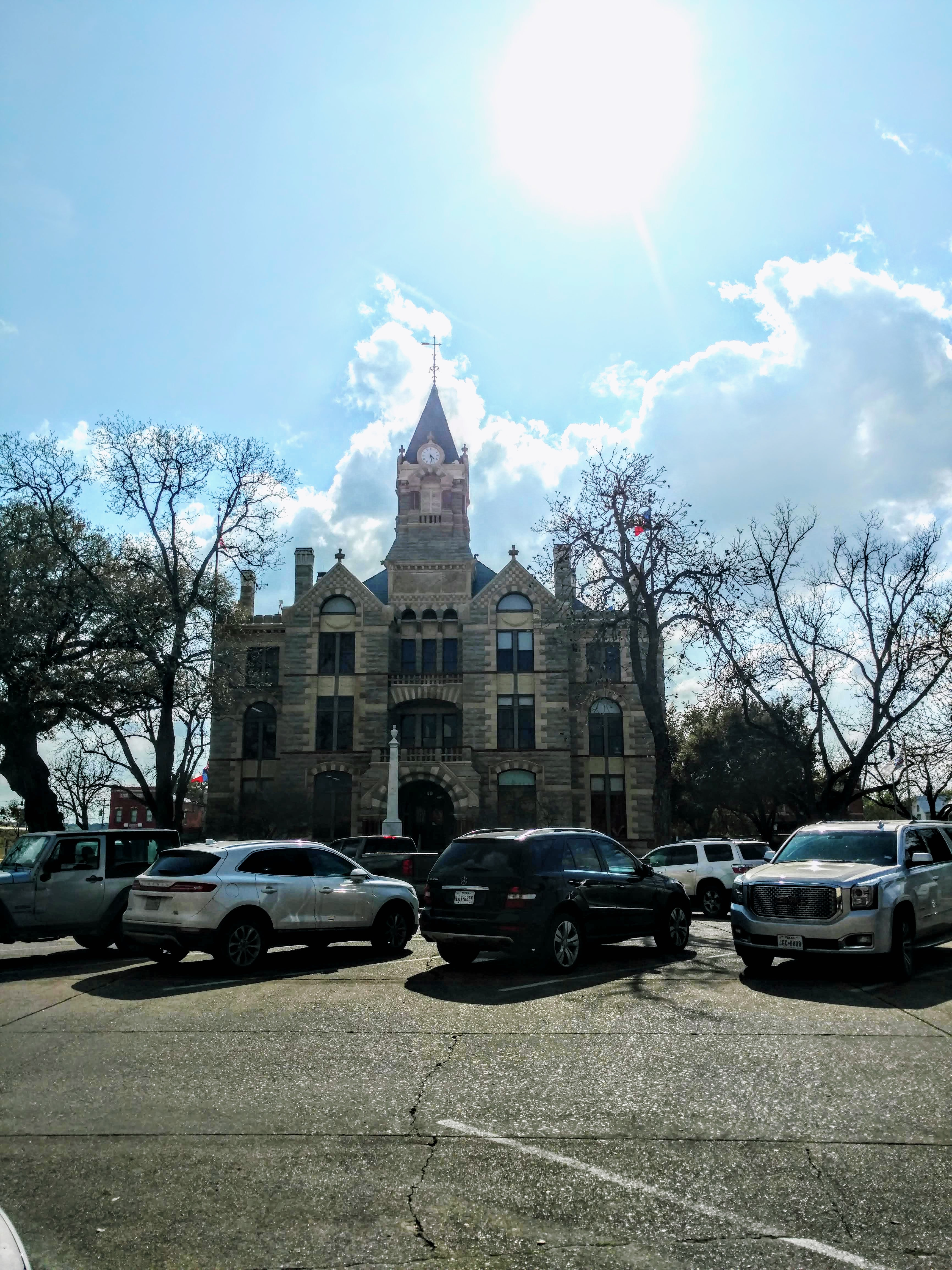 Filming also took place in La Grange, TX, 20 miles from Smithville. The Fayette County Courthouse appears during a scene where the O'Brien boys witness an arrest.